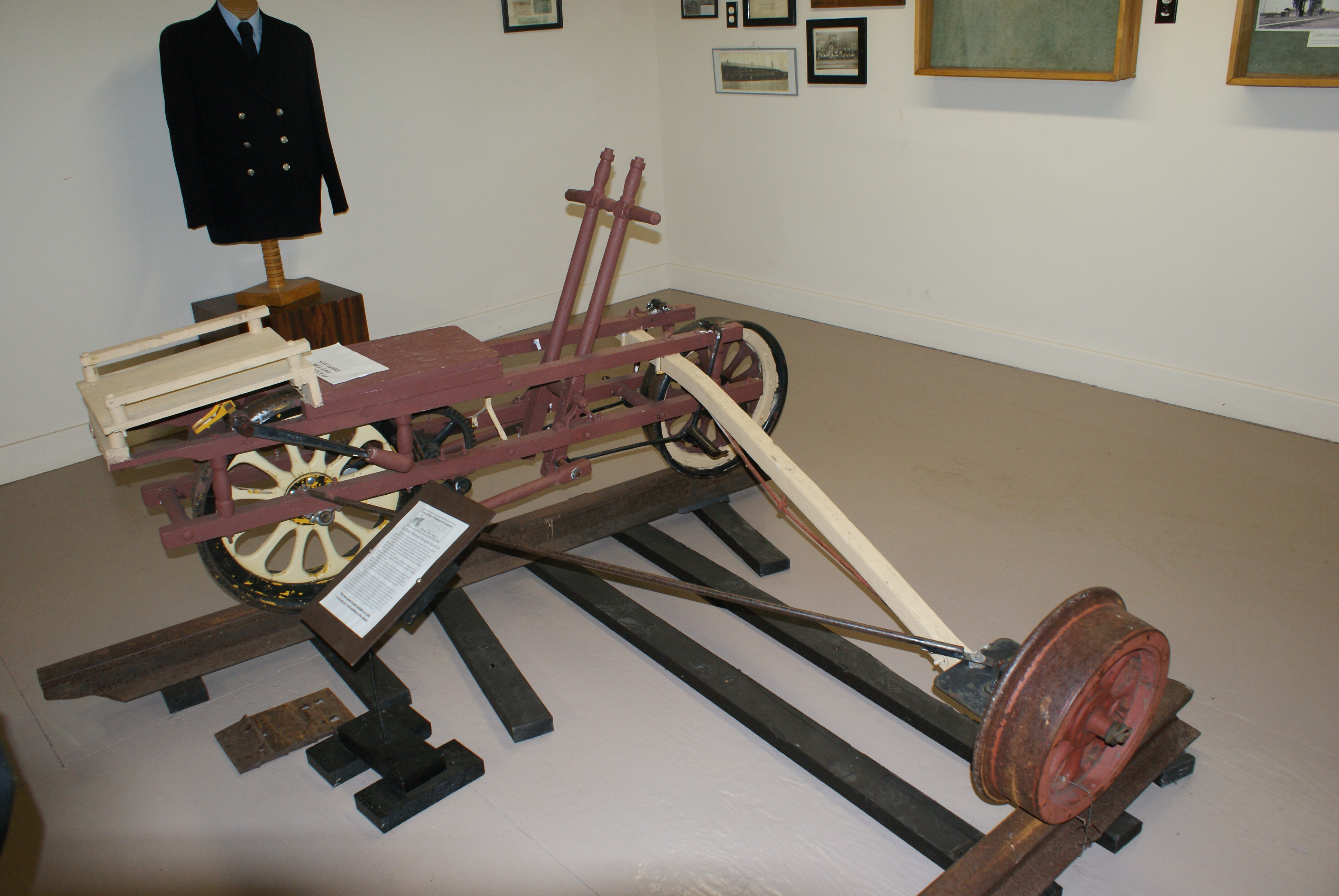 Three wheel draisine or Handcar indoors at the Saskatchewan Railway Museum Saskatchewan Railway Museum